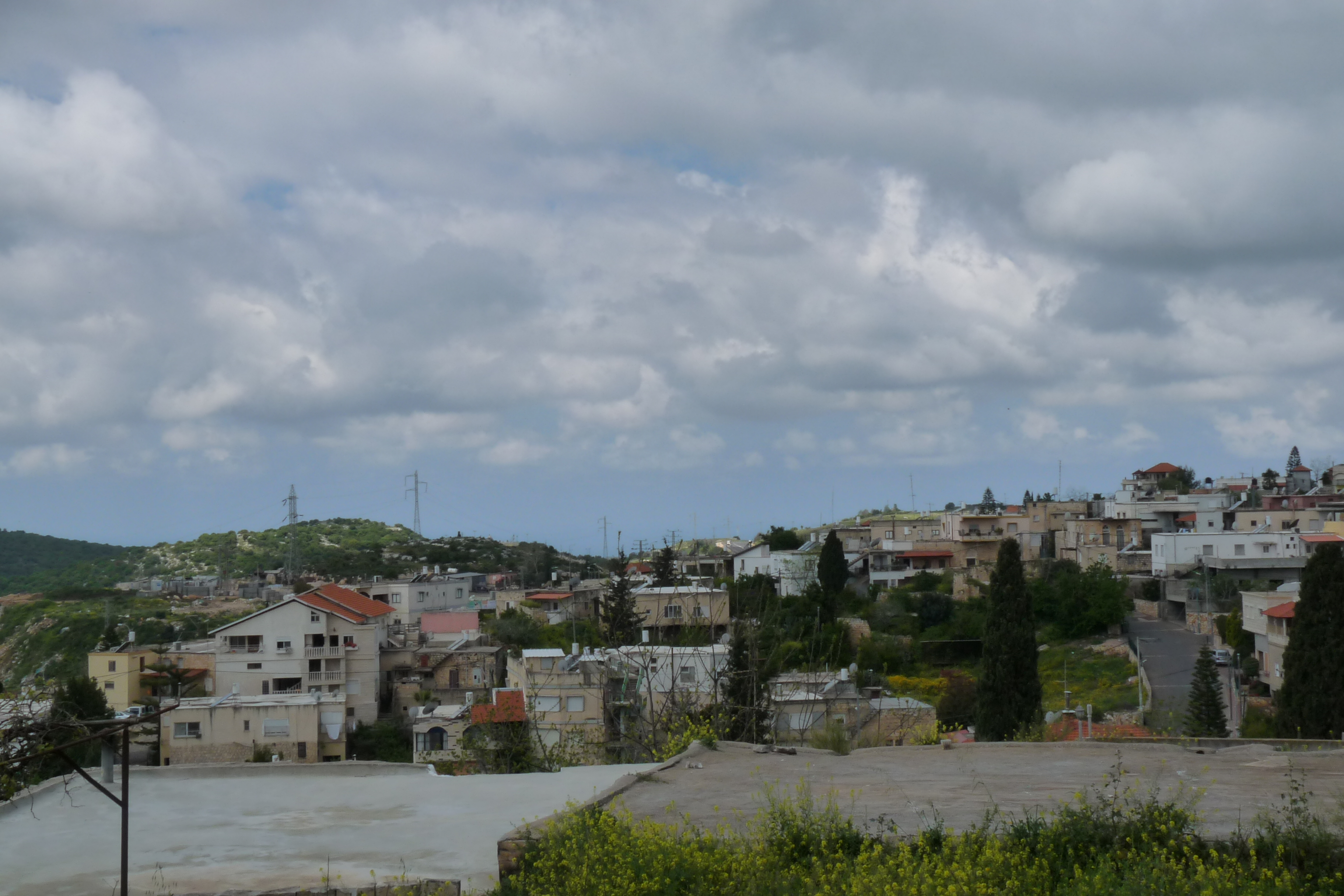 Overview of the christian arab village in the Galilee